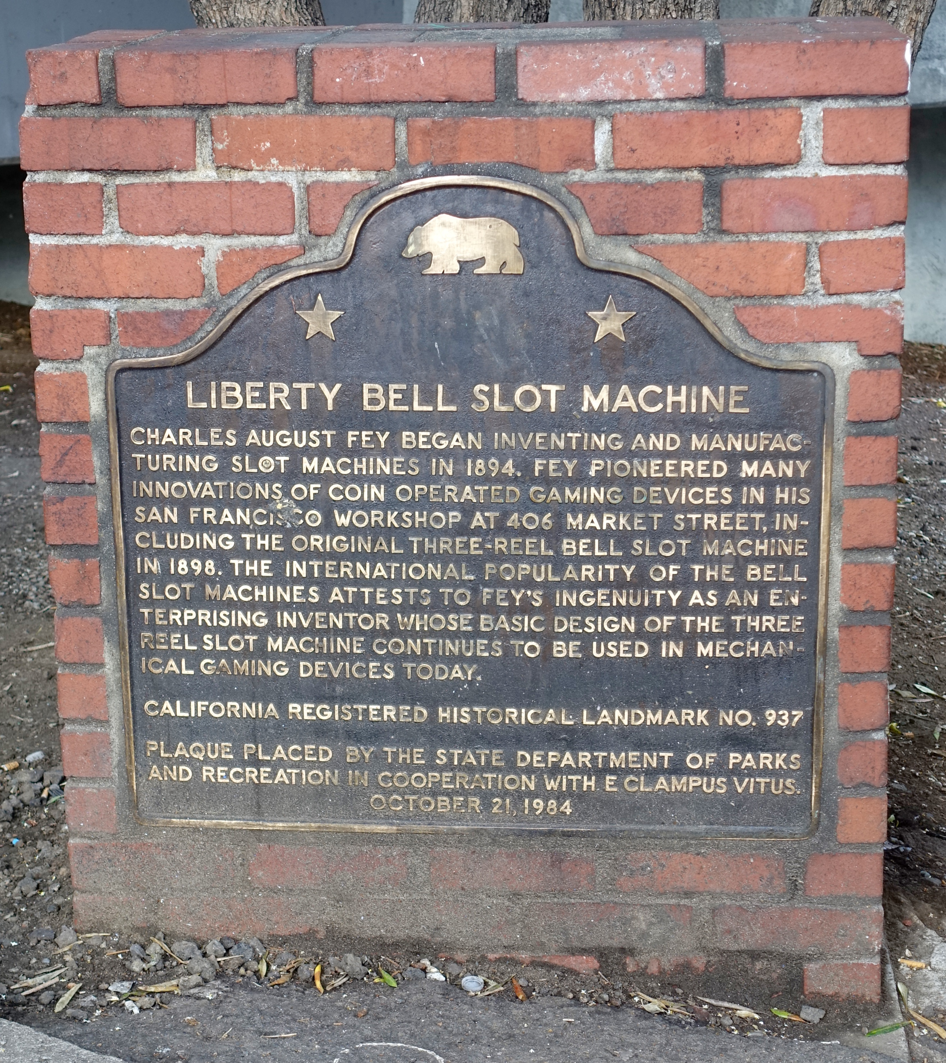 Plaque in San Francisco, California, USA.